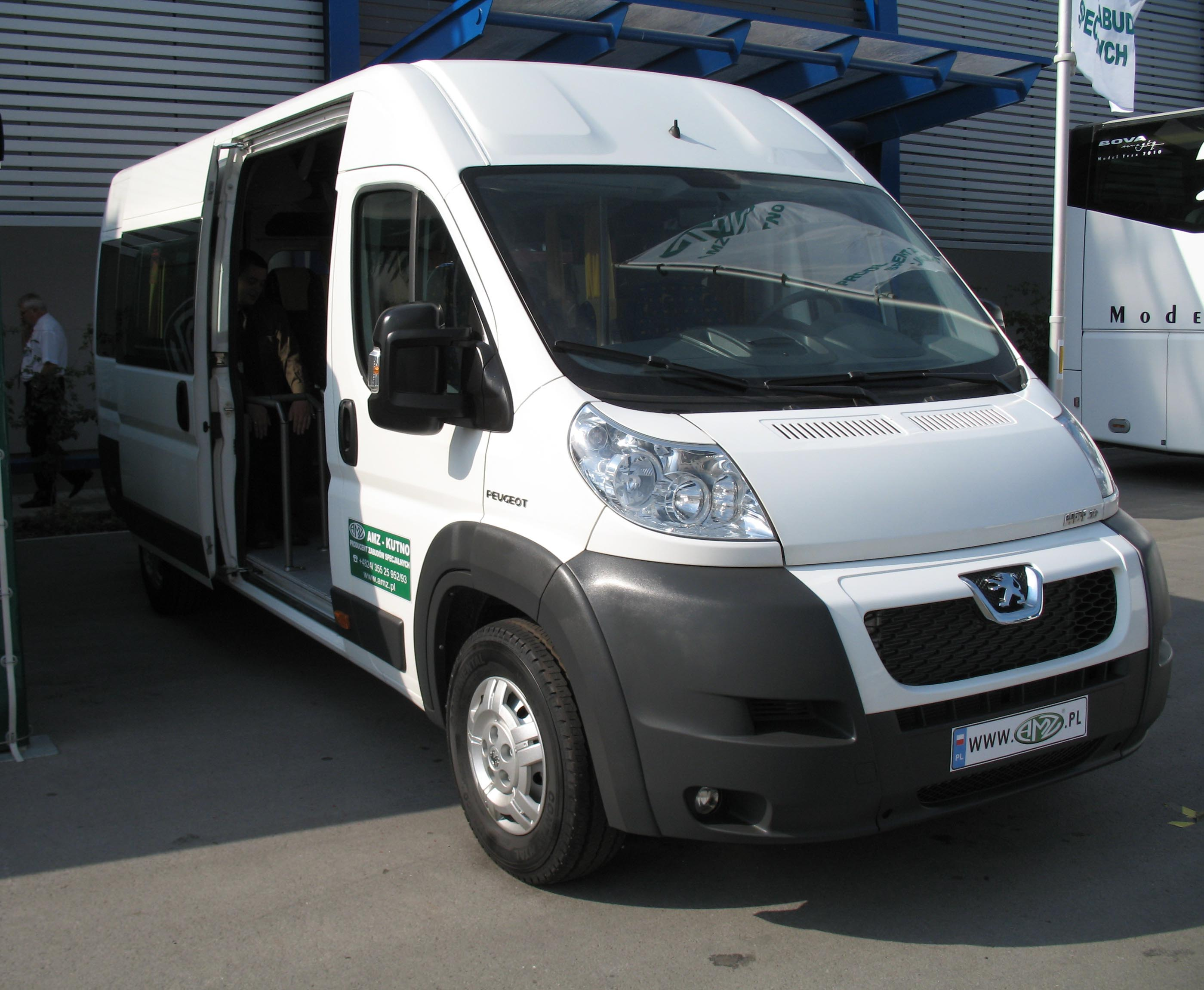 AMZ Peugeot Boxer HDi 3.0 minibus in Kielce, Poland. Transexpo 2009.